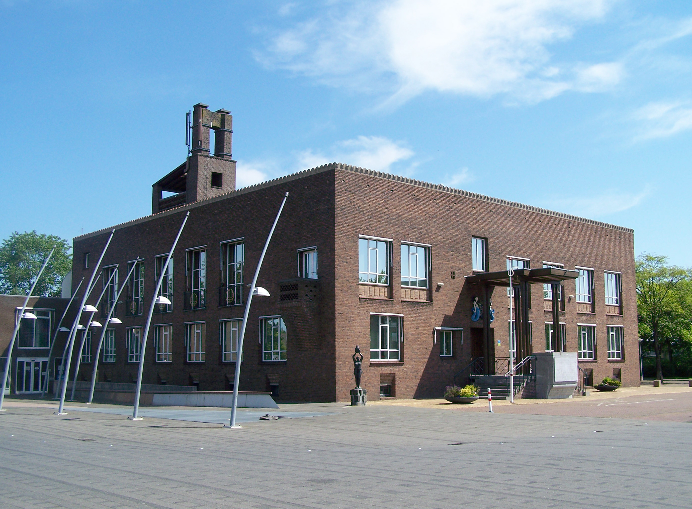 The Townhall of Wieringermeer in Wieringerwerf at the Loggersplein. Designed by Berghoef & Klarenbeek in 1955.